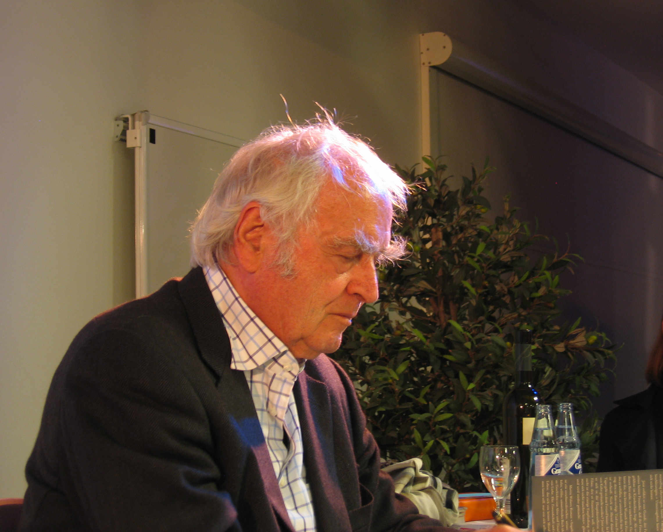 The writer Martin Walser during a book presentation in Aachen, Germany